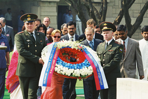 DELHI. Wreath-laying ceremony at the site of Mahatma Gandhi\'s cremation.